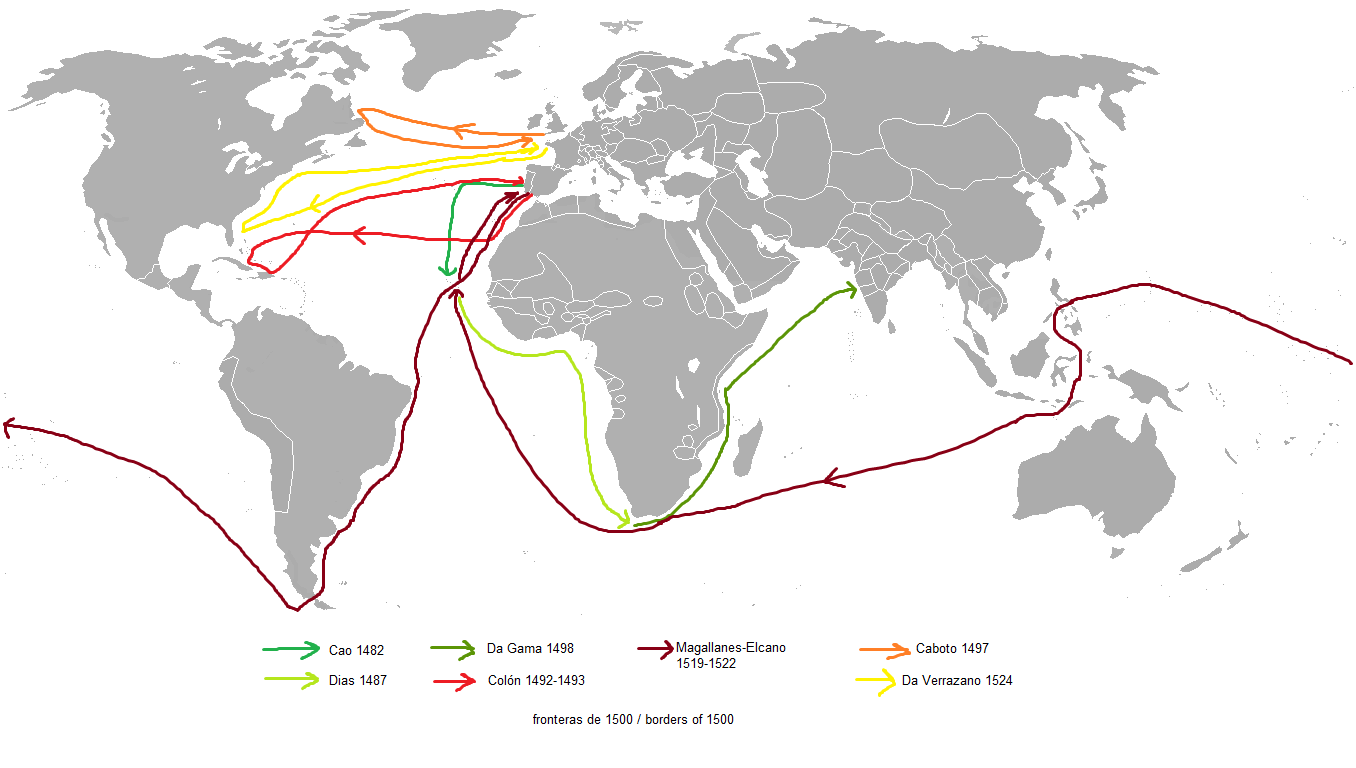 map of the main routes of the age of discoveries